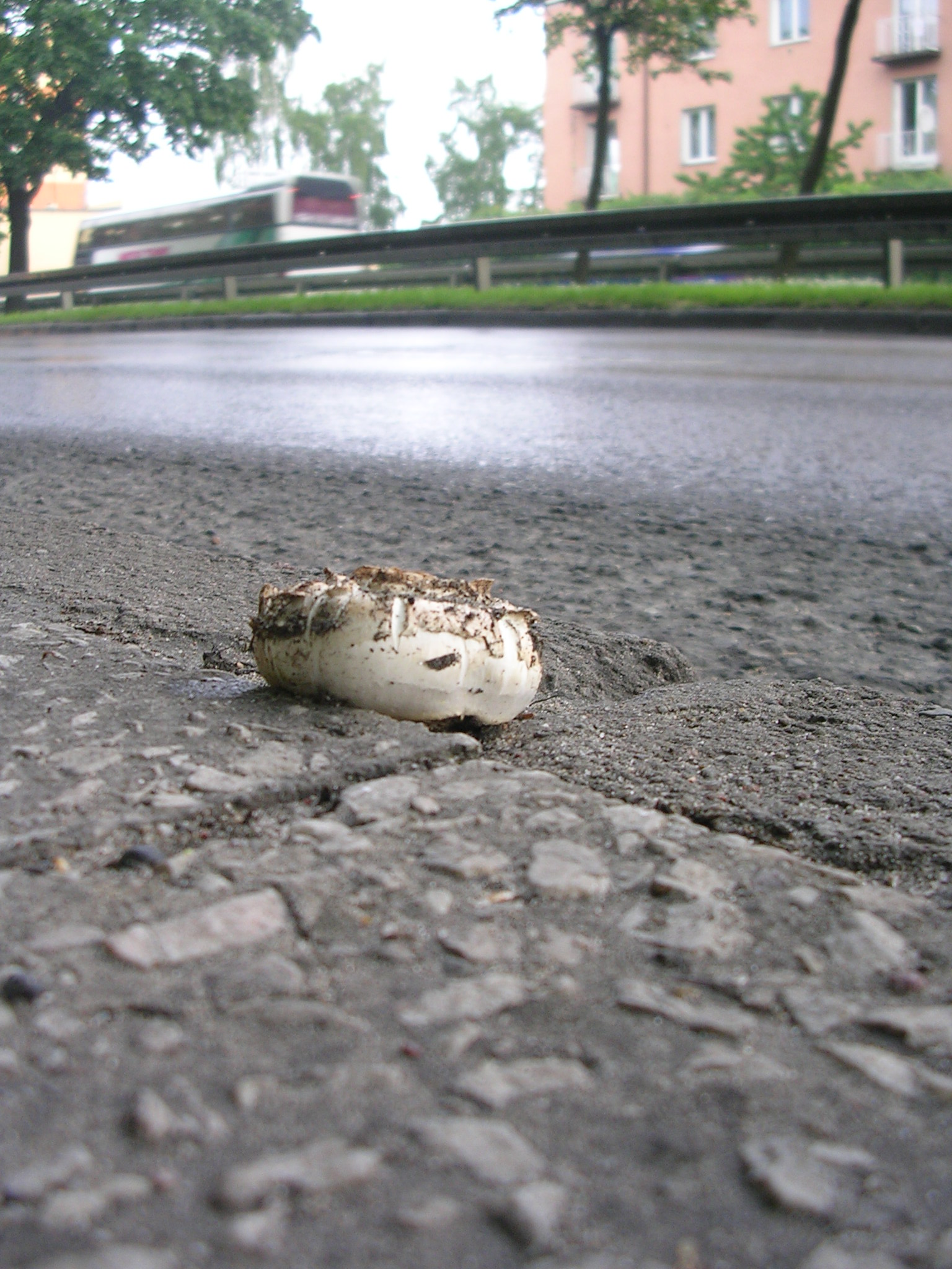 Agaricus in Sopot, Poland